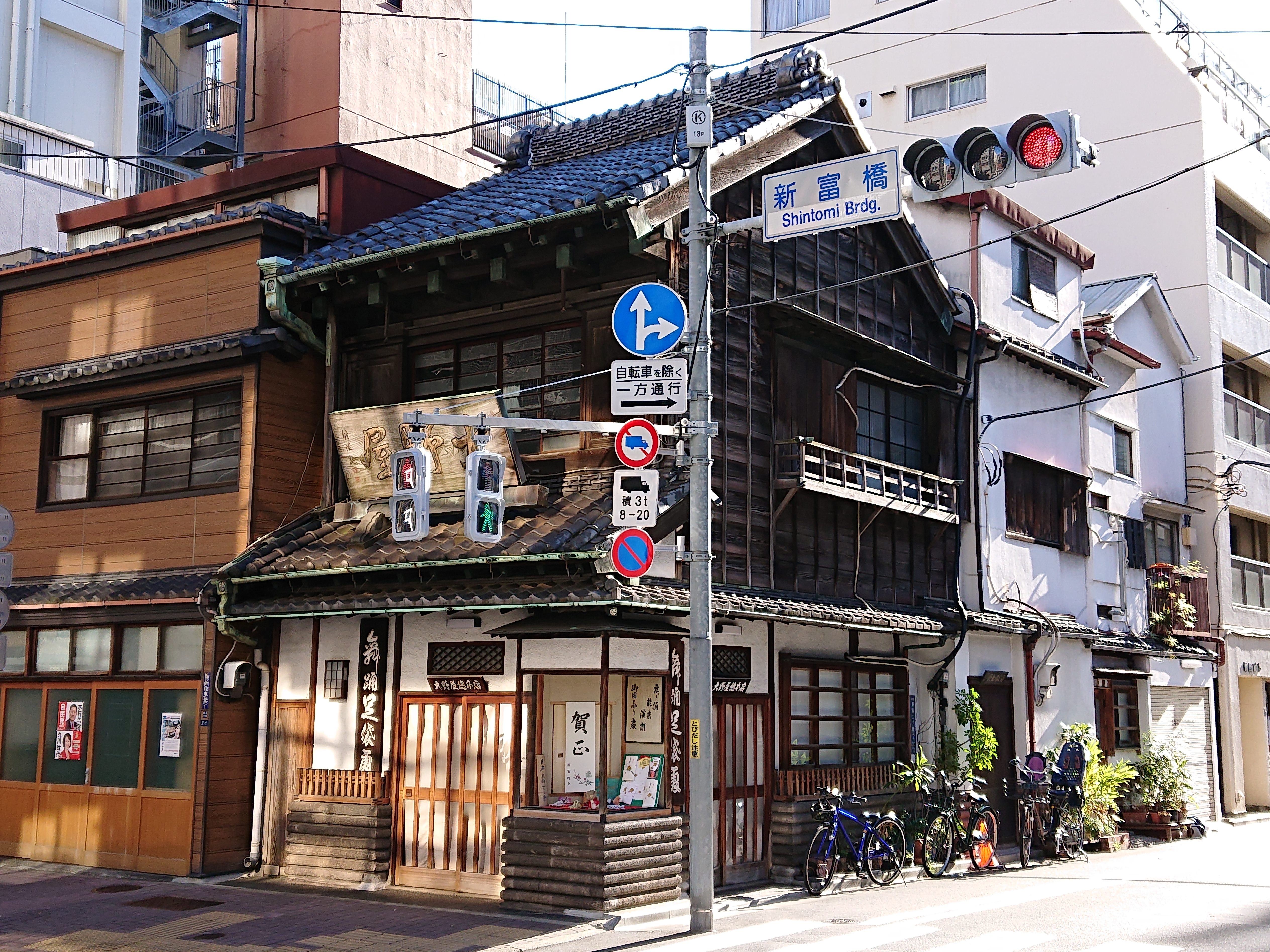 Oonoya Sohonten (大野屋總本店), located at 2-2-1 Shintomi, Chuo, Tokyo, Japan